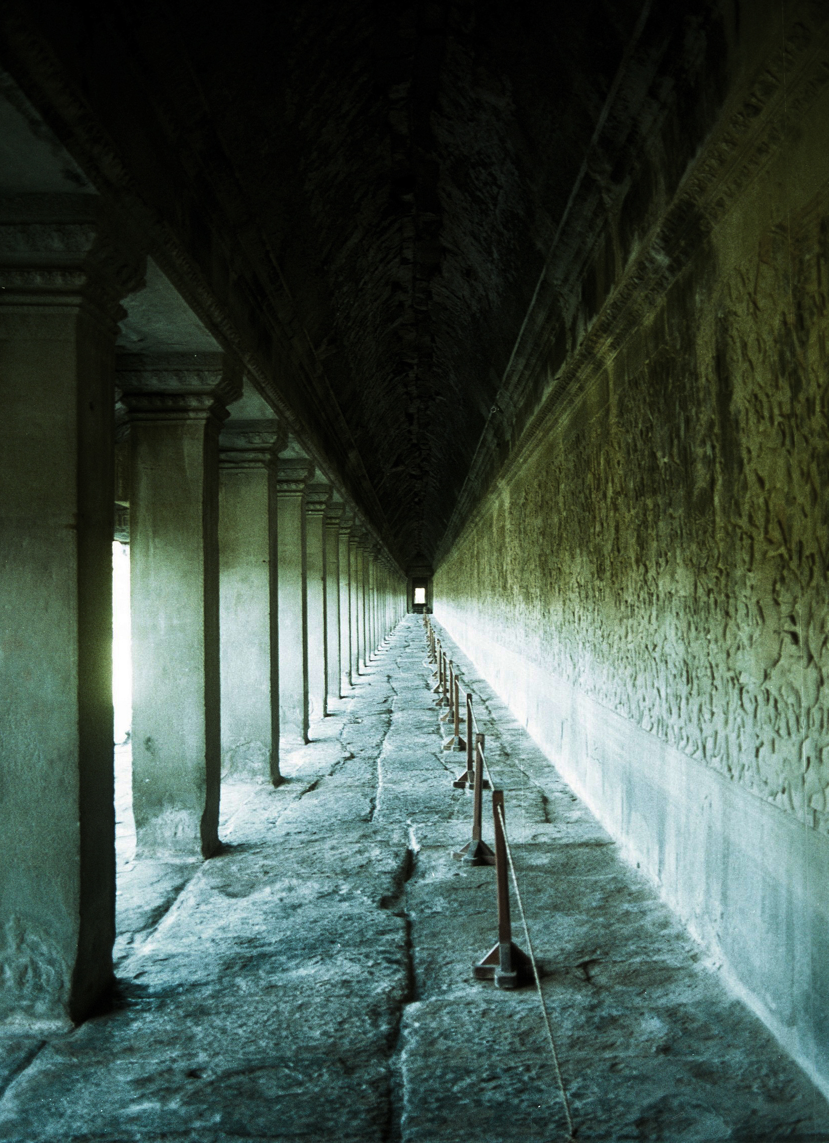 North west gallery of Angkor Wat, 1st level